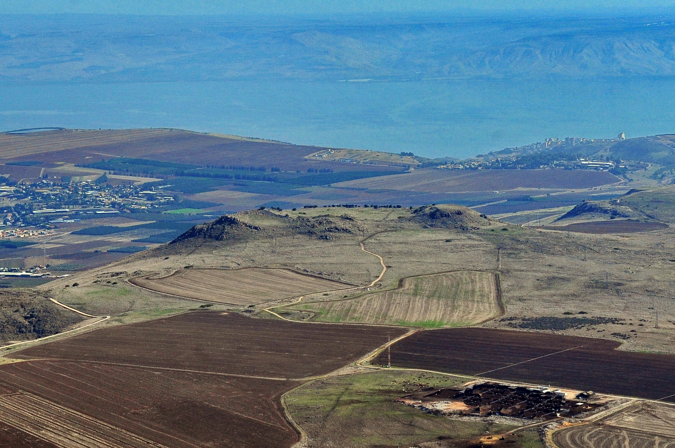 On the left is Moshav Arbel. On the far right appear houses of Tiberias.